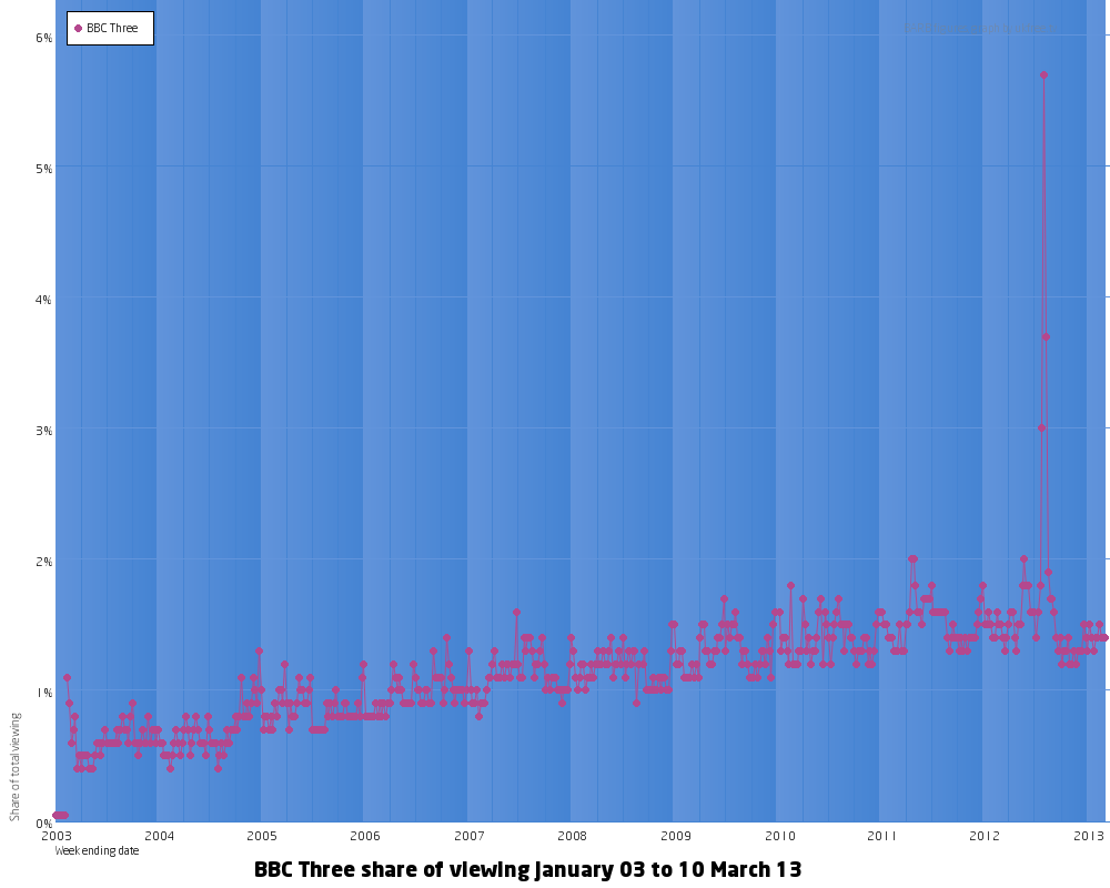 BBC Three viewing figures since launch